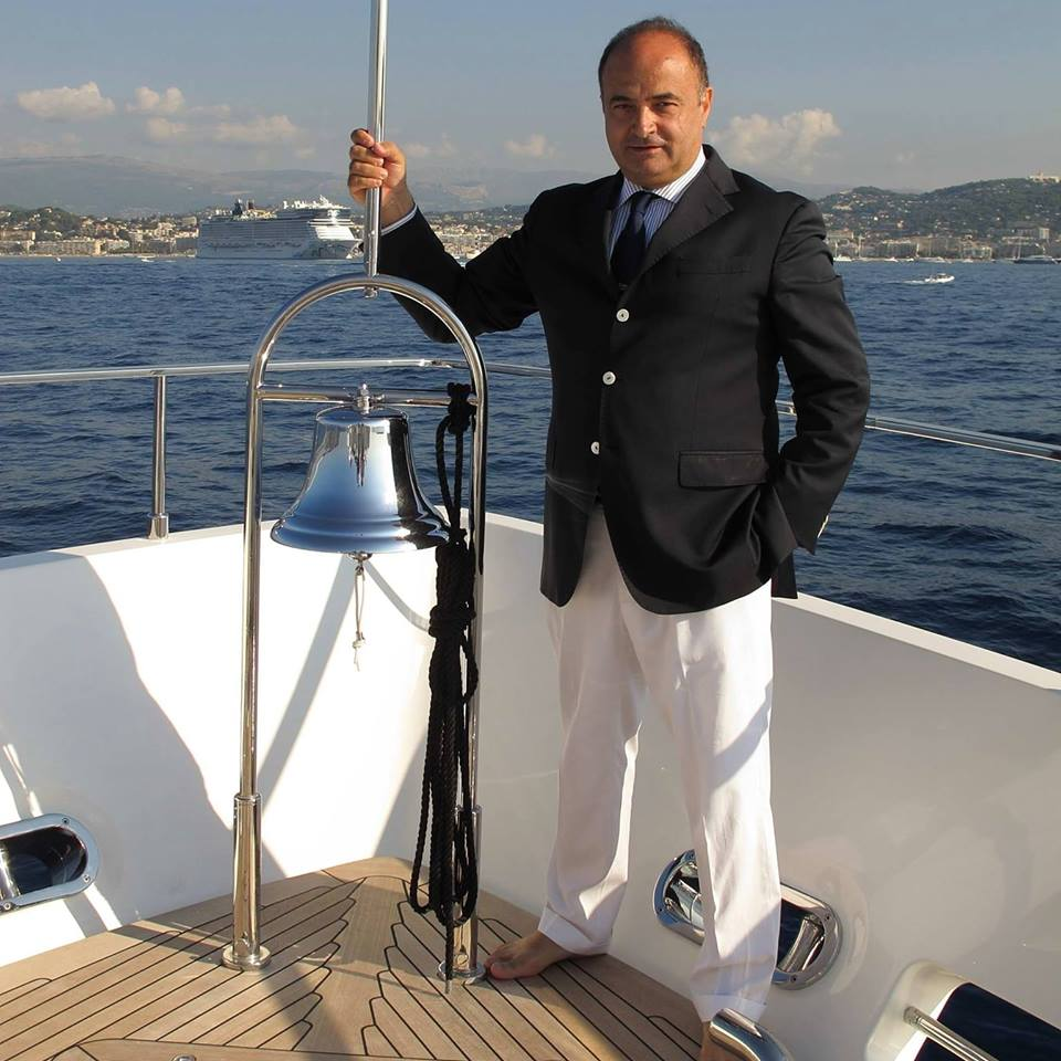 Francesco Michienzi